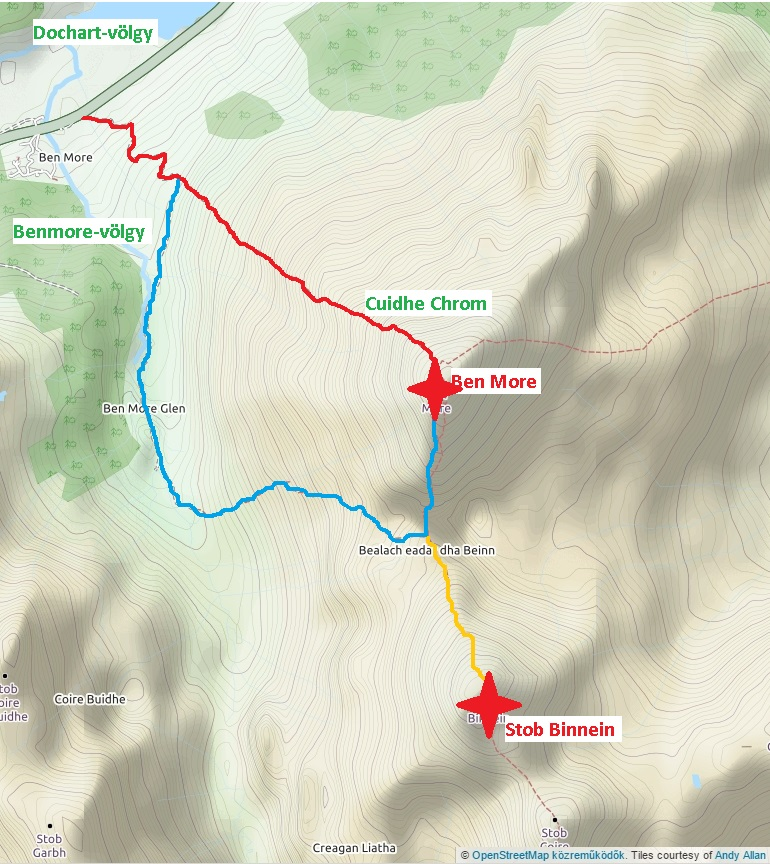 Paths leading to Ben More and Stob Binnein